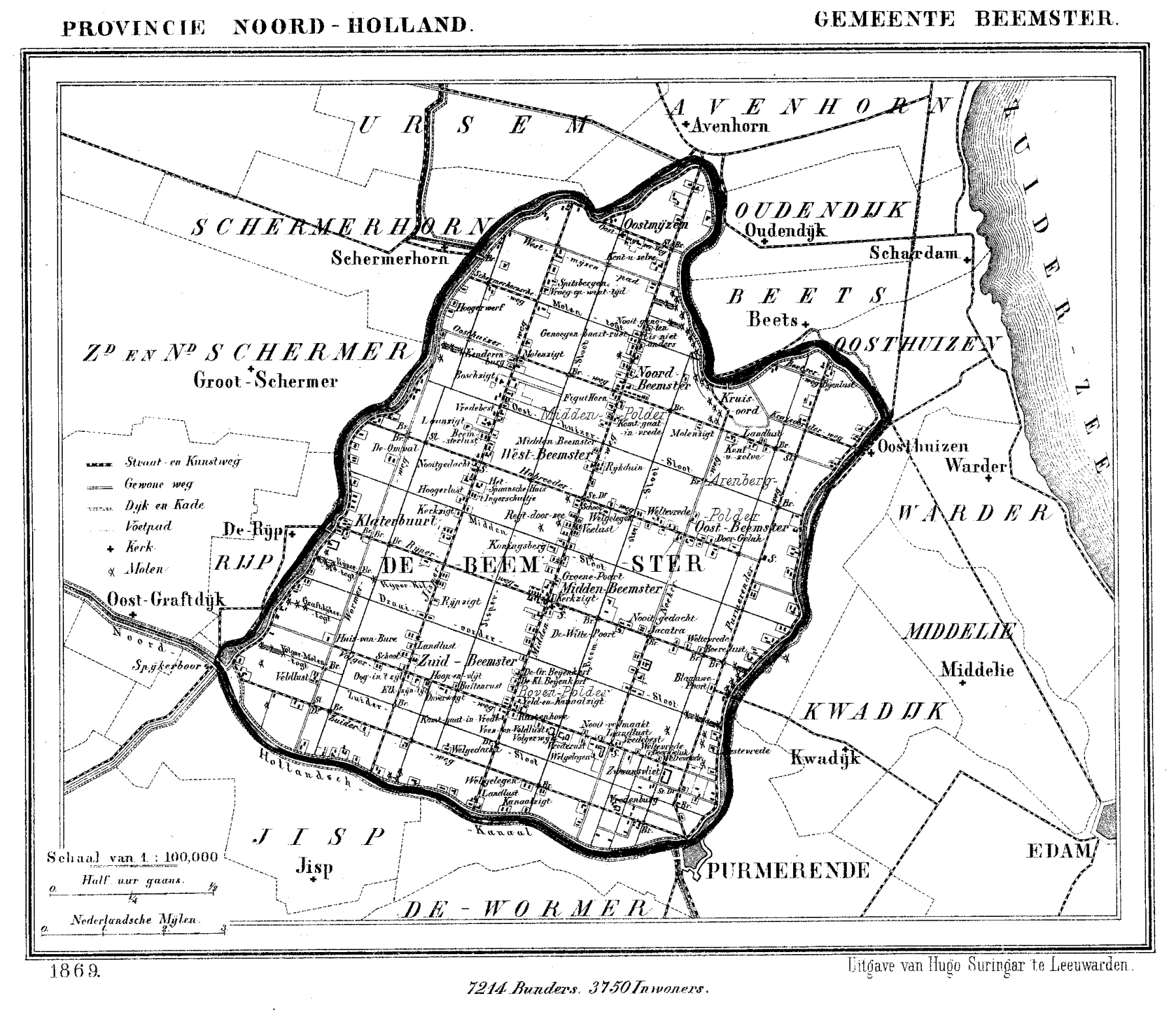 Historic map of Beemster, the Netherlands